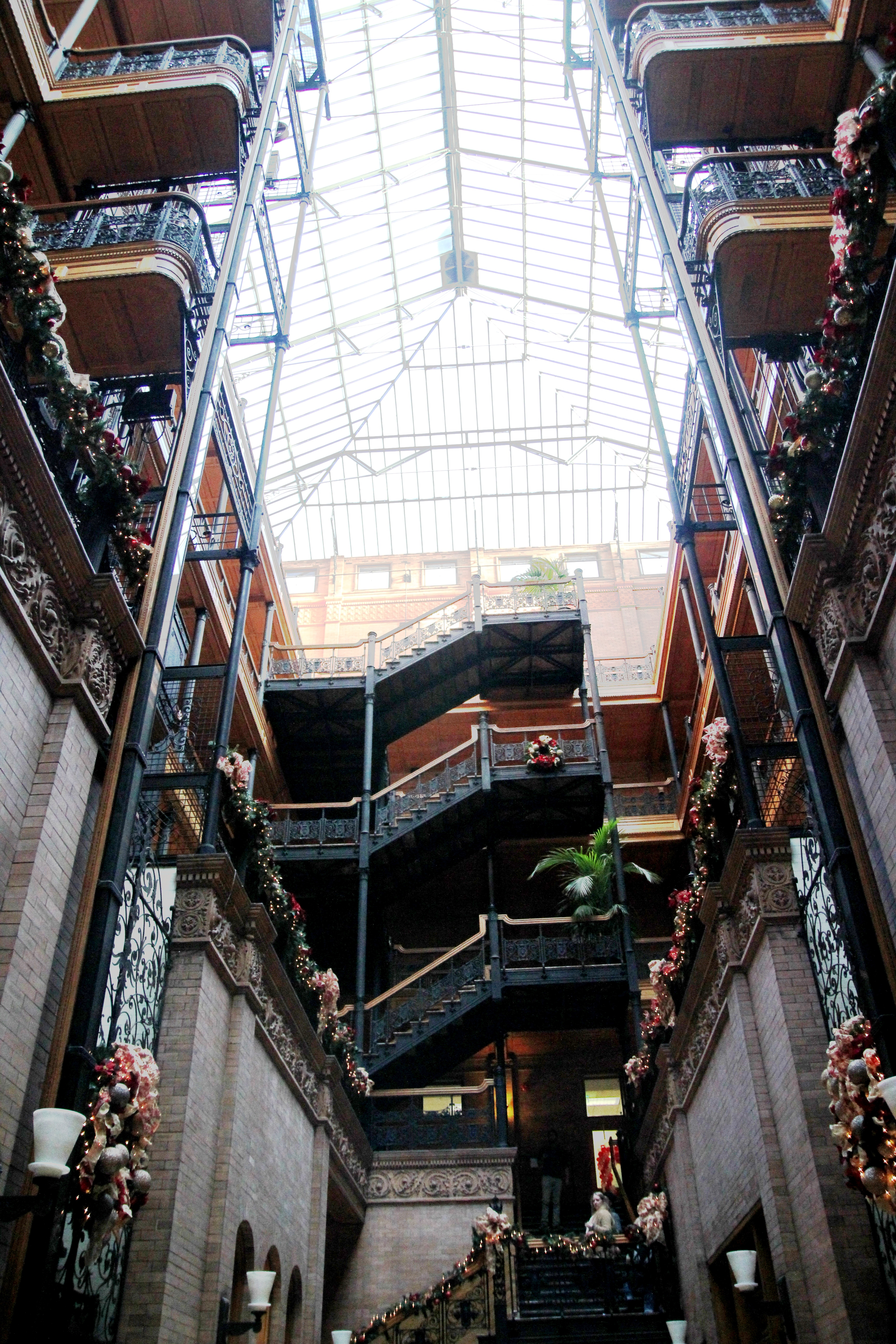 Atrium interior with skylight, Central Court of the Bradbury Building, Downtown Los Angeles. December 2011